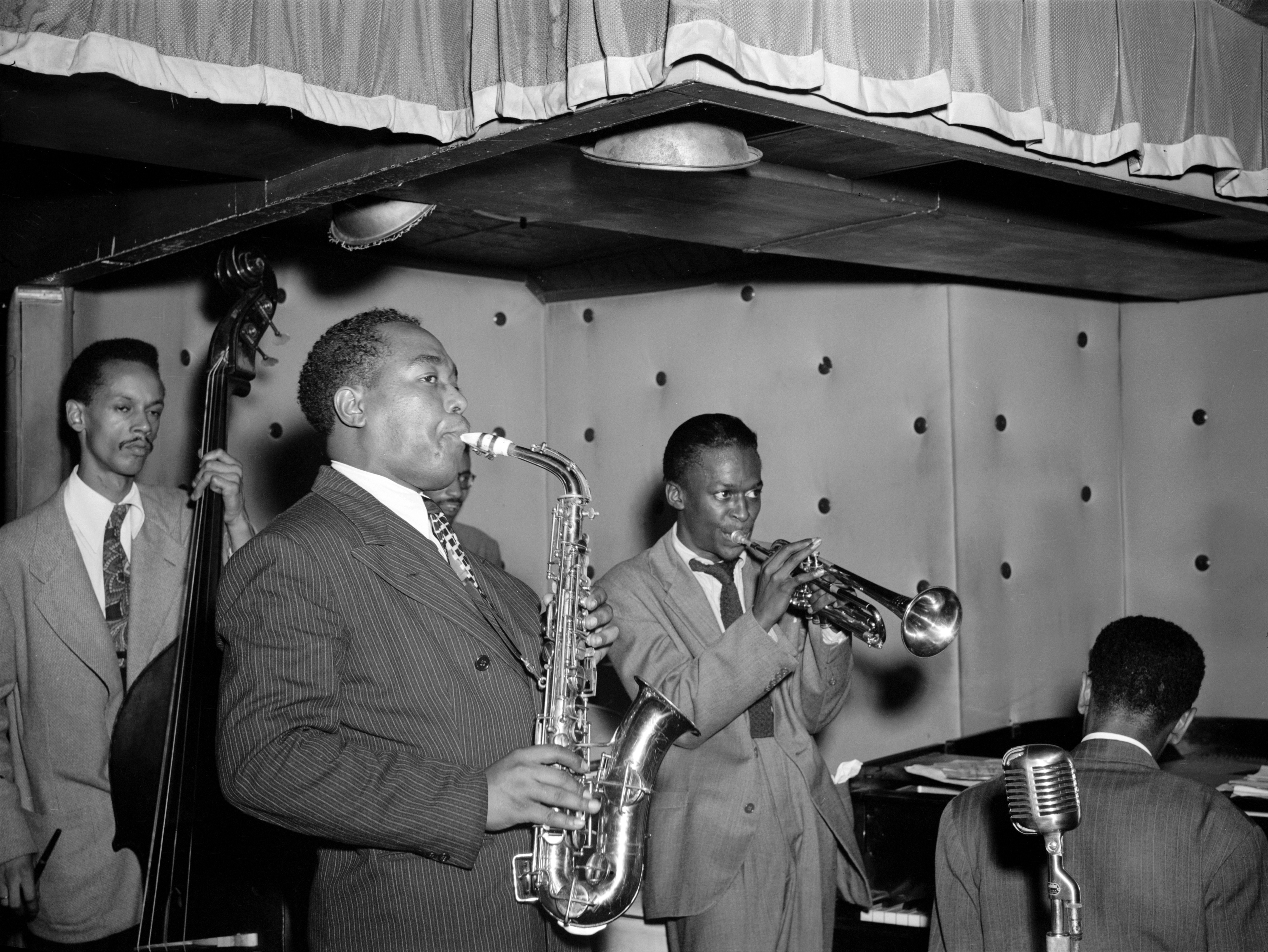 Portrait of Tommy Potter, Charlie Parker, Max Roach (almost hidden by Parker), Miles Davis, and Duke Jordan (from left to right), Three Deuces, New York, N.Y.